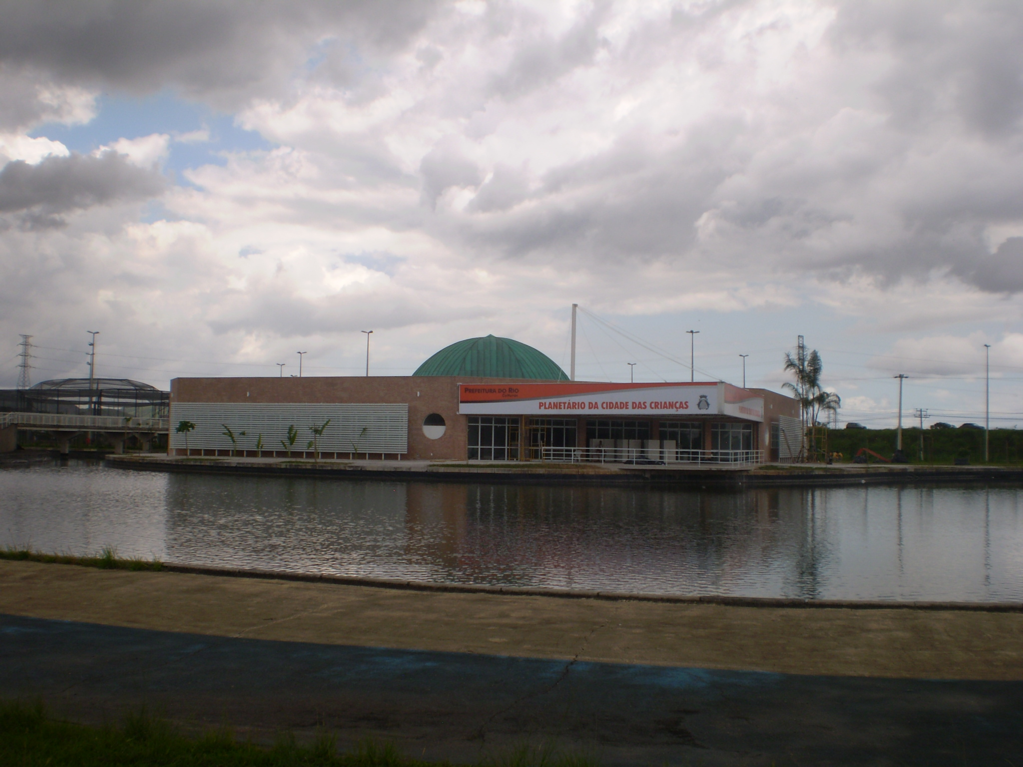 Santa Cruz Planetarium, Cidade das Crianças Leonel Brizola, Santa Cruz, Rio de Janeiro, Brazil.